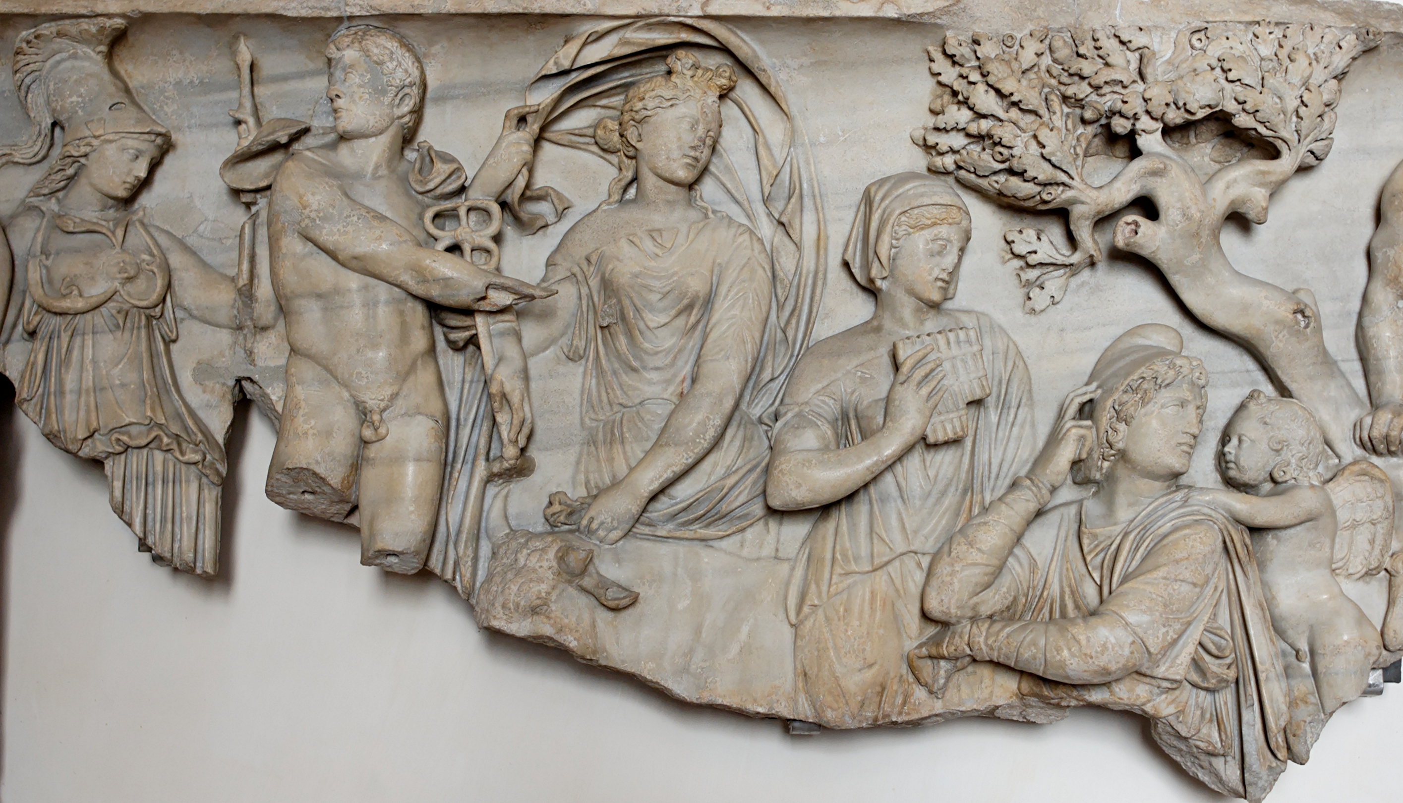 Judgement of Paris, detail from the front panel of a sarcophagus: from left to right, Athena (with helmet), Hermes (with caduceus), Aphrodite (draped), Œnone (Paris' first wife, with pan pipes), Paris himself (with Phrygian cap) and Eros. Marble, Roman artwork from the Hadrianic period (117-138 CE), after Hellenistic themes.